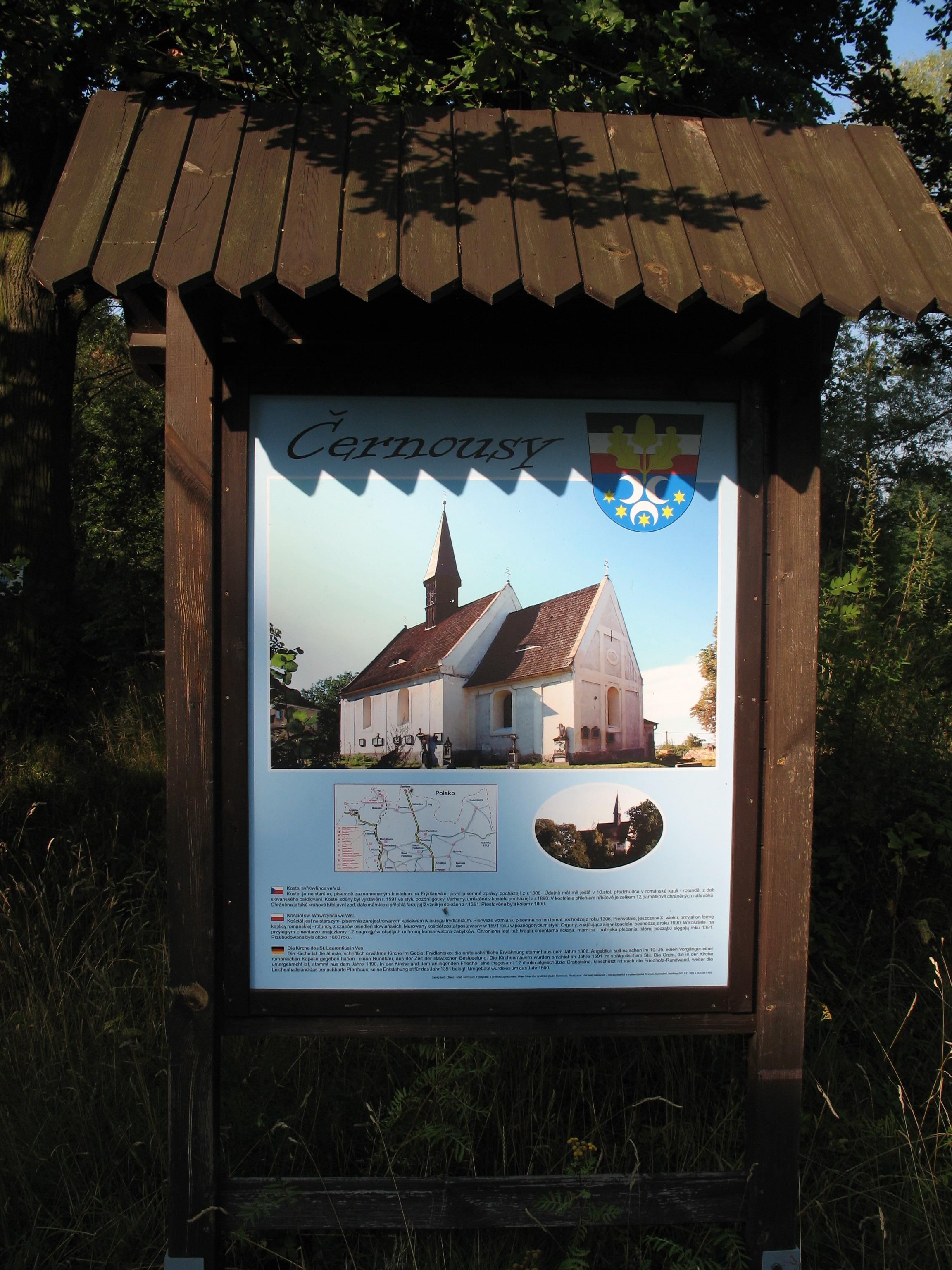 Info board about St Lawrence church in Ves, Liberec District